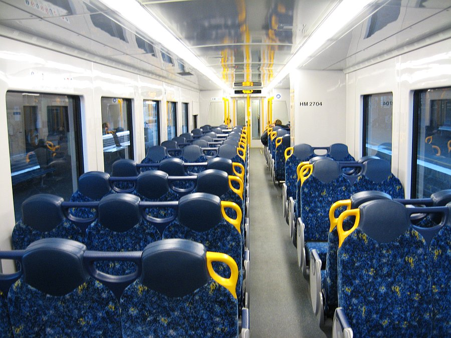 Hunter railcar interior at Maitland, Sep 2007